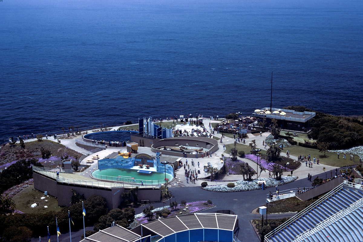 Marineland of the Pacific (1977) — formerly on the Palos Verdes Peninsula, in Los Angeles County, California.